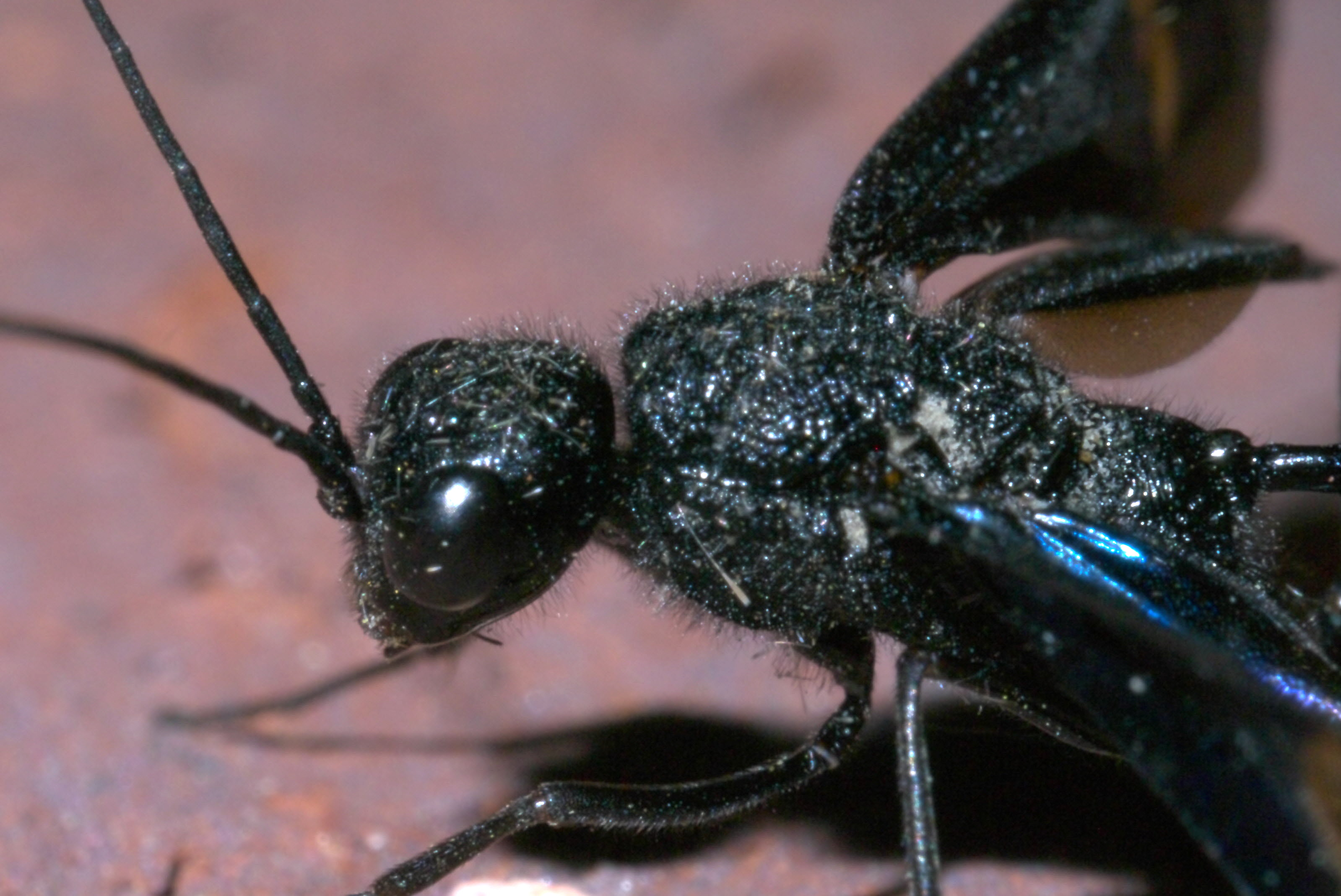 Pristaulacus fasciatus, Superfamily: Aulacids, Ensigns, and Gasteruptiids, ID Confidence: 87